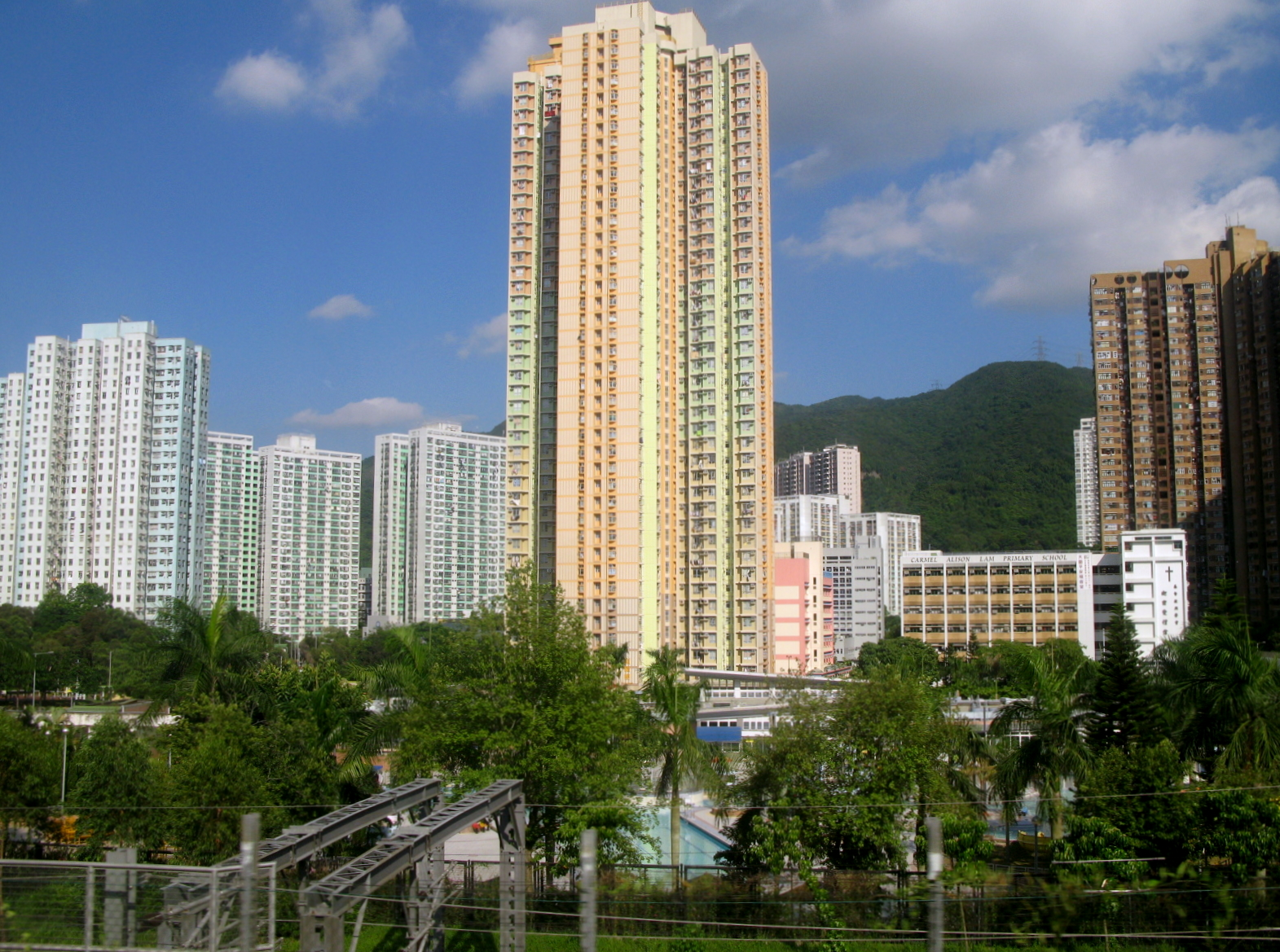 Hong Kong, Tai Wai. From left to right: Carado Garden housing estate, Lung Hang Estate, Hin Yiu Estate (tall tower in the centre), Carmel Alison Lam Primary School, Hin Keng Estate (brown tower on the right)